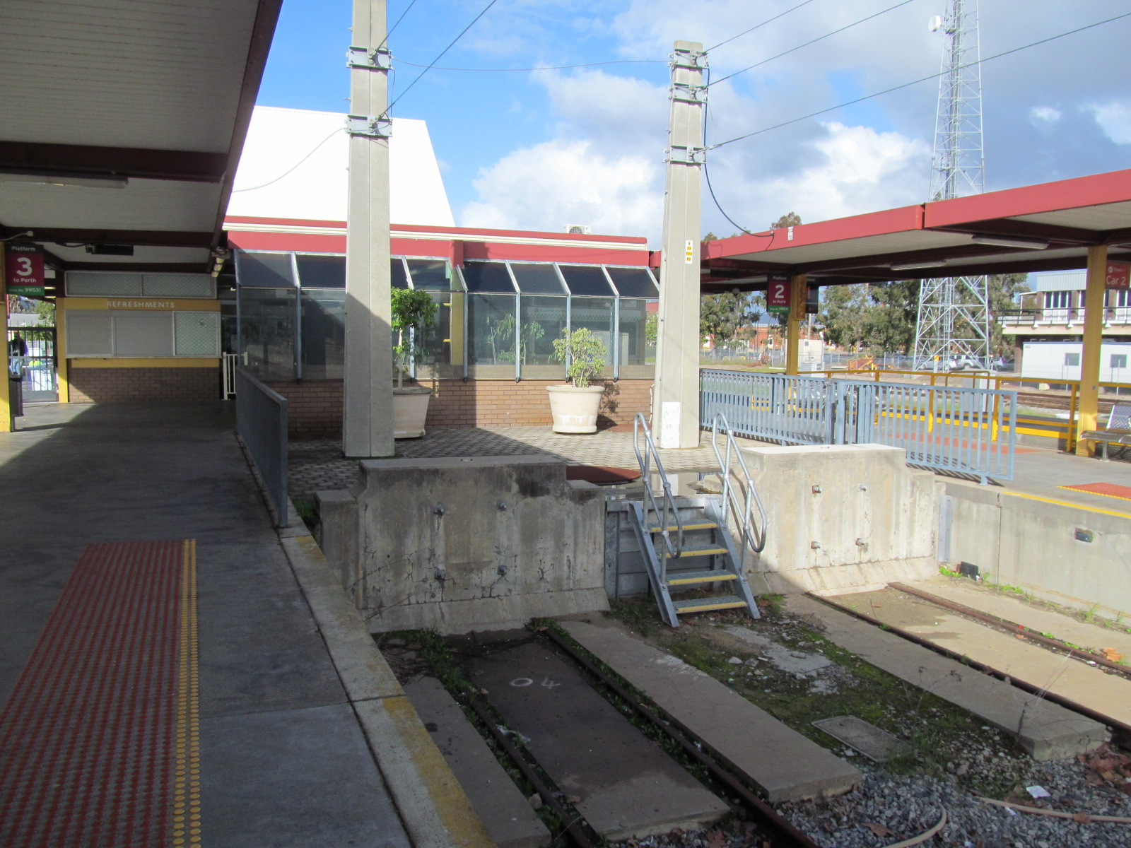 End of the Midland railway line at Midland Station, Midland, Western Australia.